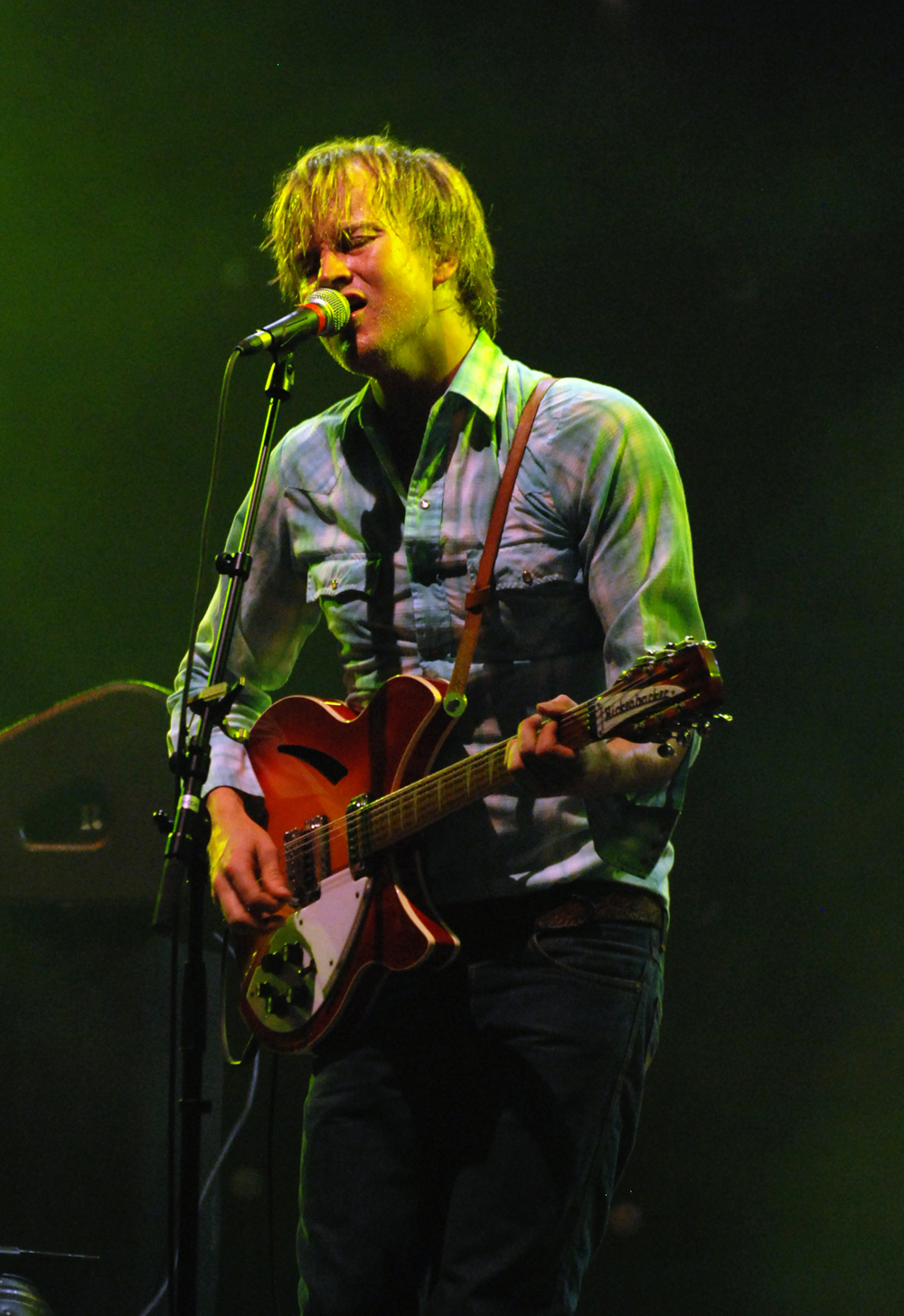 Øystein Greni of Bigbang live at Hamar Music Festival 2009.